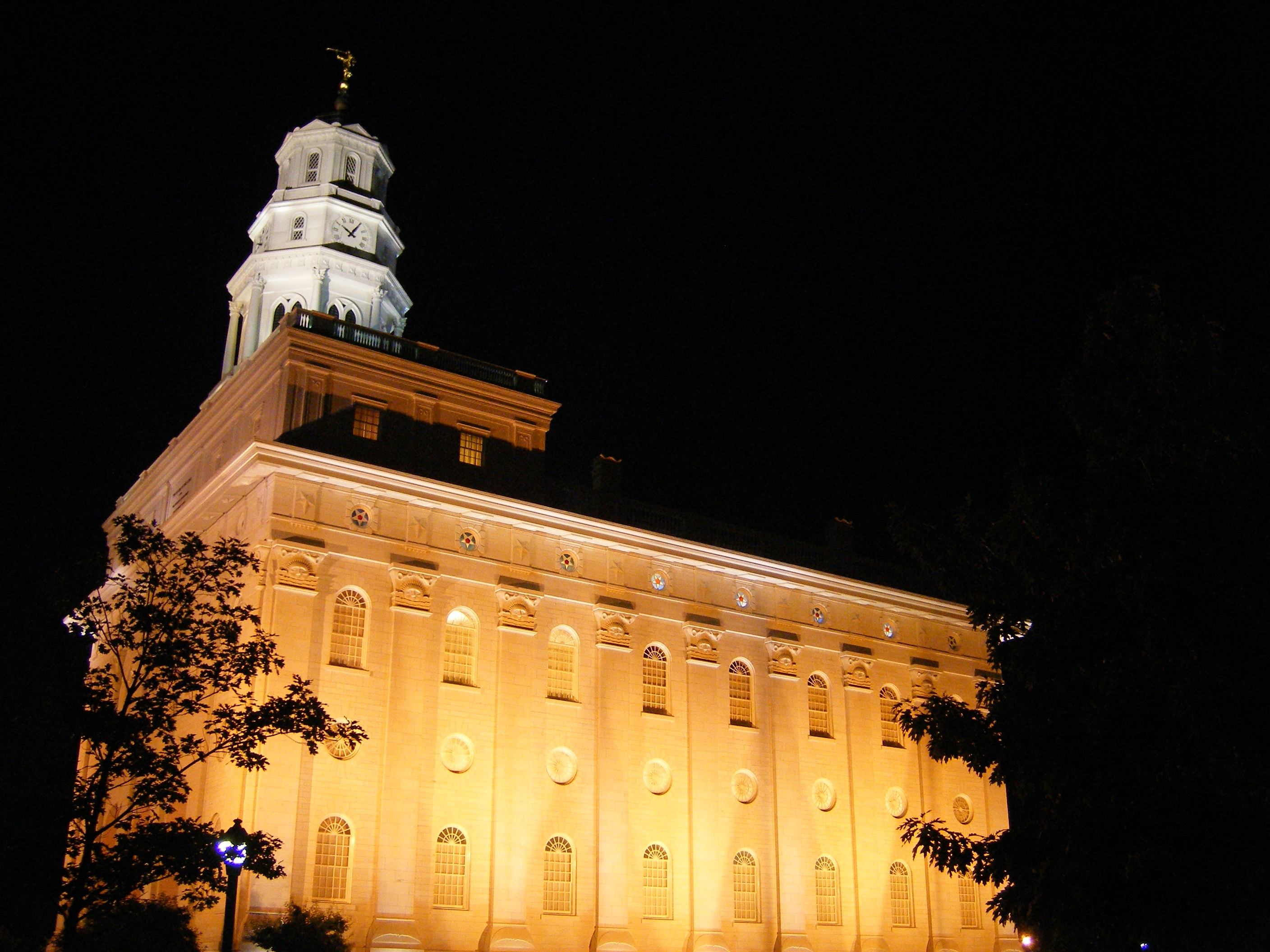 Photograph of the south side of the Nauvoo Illinois Temple showing the central spire of the west side of the building, taken by Derek P. Moore on June 24, 2007.